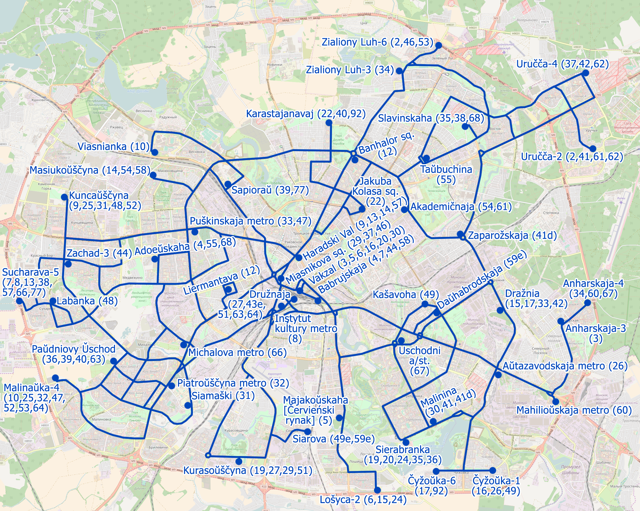 Trolleybus map of Minsk (Belarus), December 2018. Data are verified with the Minsktrans official site This map may be incomplete, and may contain errors. Don't rely solely on it for navigation.